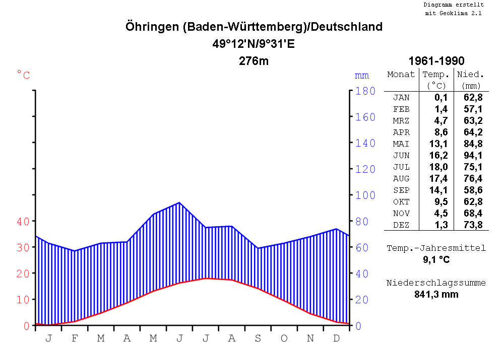 climate chart of Öhringen, Baden-Württemberg, Germany, for the period of time from 1961 to 1990, in the format by Walter and Lieth, metric, °Celsius and millimeters, chart made with Geoklima 2.1, label in German